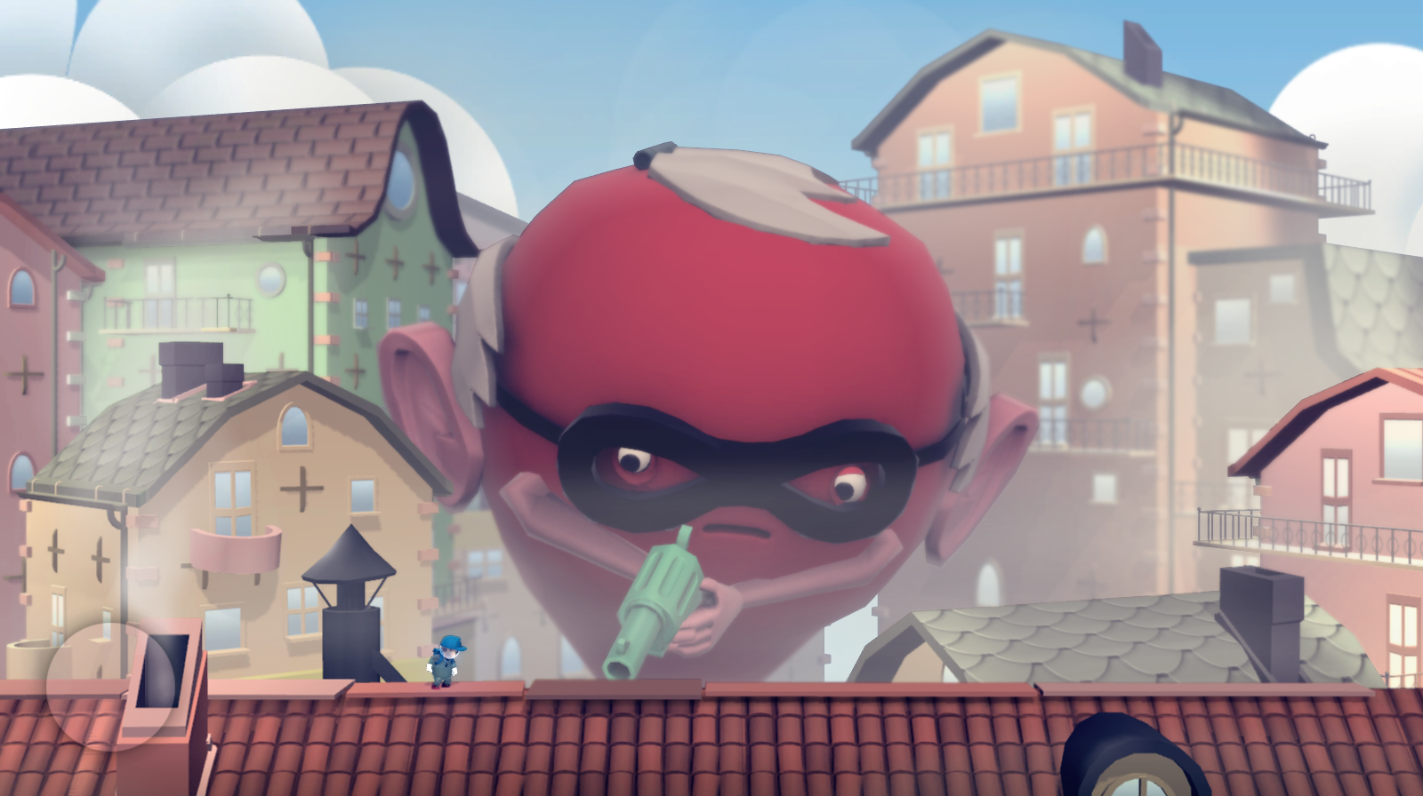 Pid gameplay screenshot. The player prepares to face The Crook, boss of The City level. Released in 2012, the game was developed by Might and Delight.